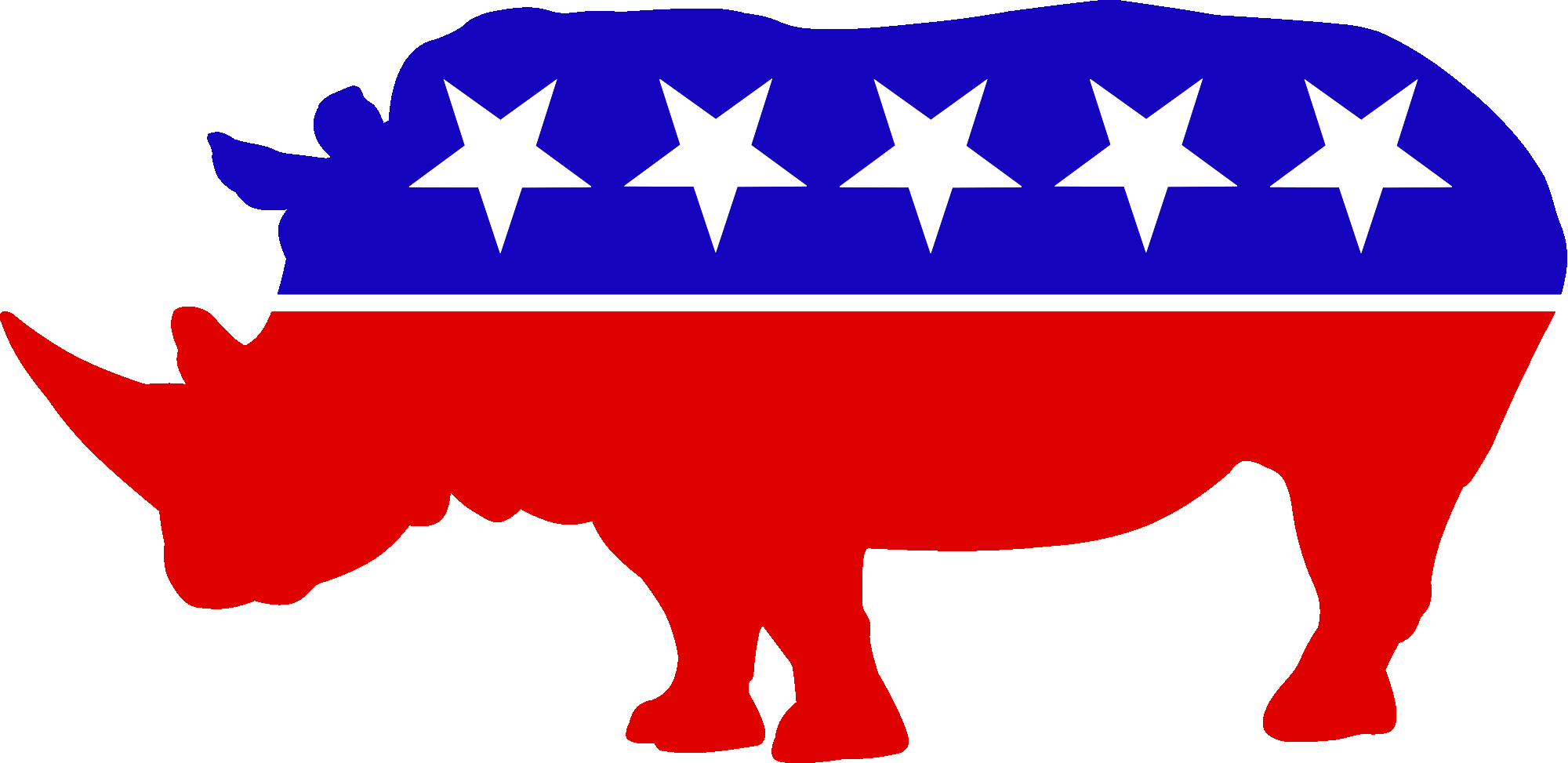 Republican In Name Only symbol